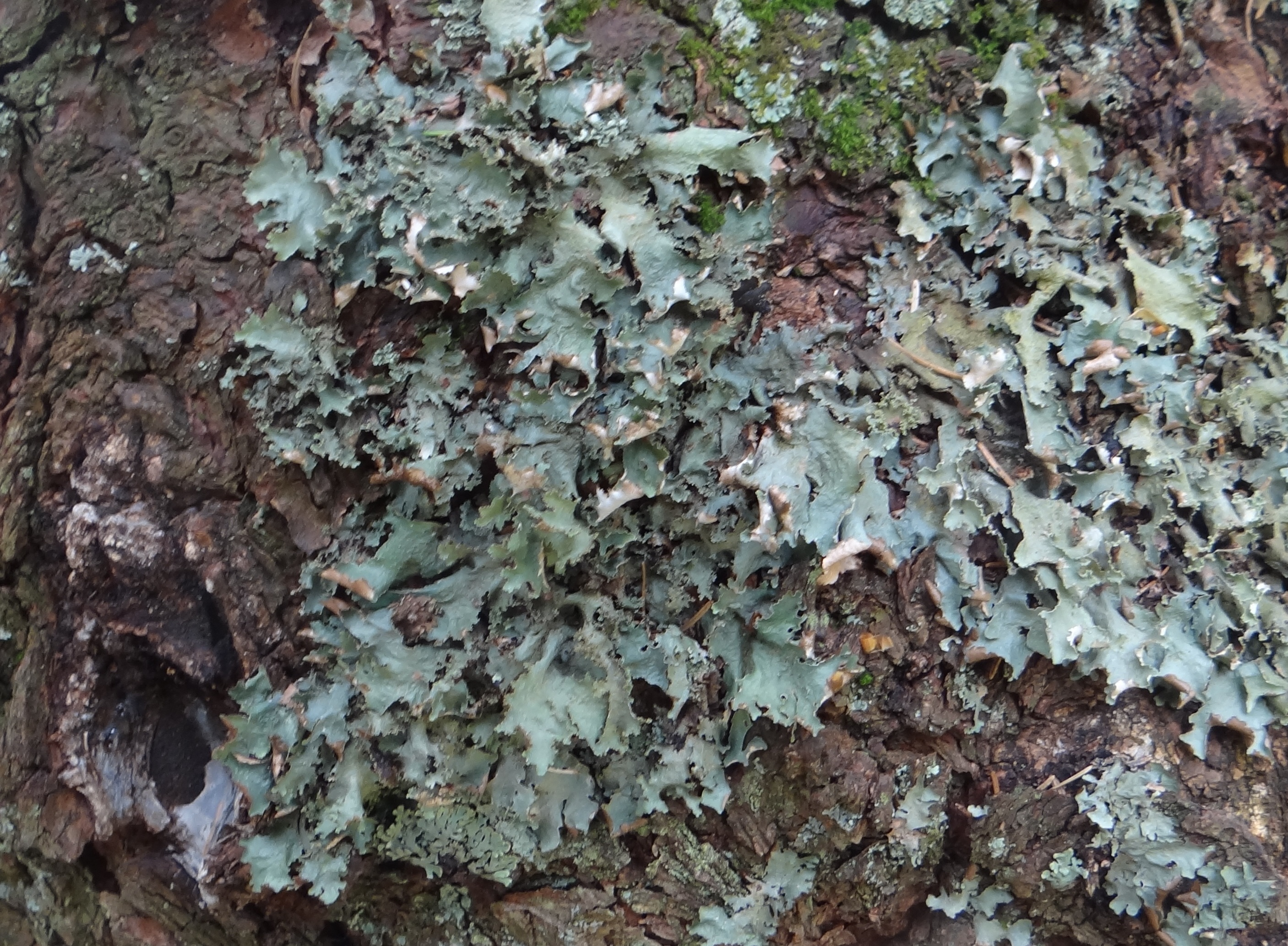 Cetrelia olivetorum (location: Poland,West Tatra Mountains, Dolina Tomanowa)